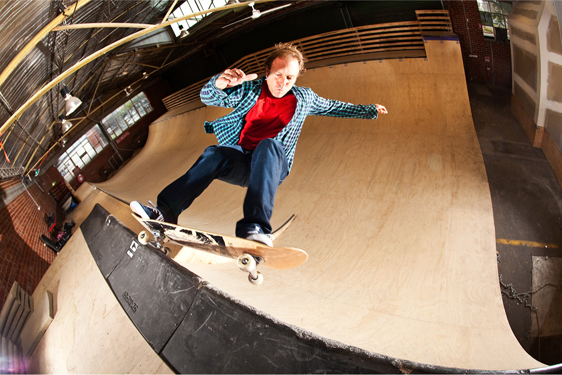 Executive Director and Founder of Globe International Limited, Stephen Hill skateboarding on an indoor skate ramp, Port Melbourne, Victoria, Australia